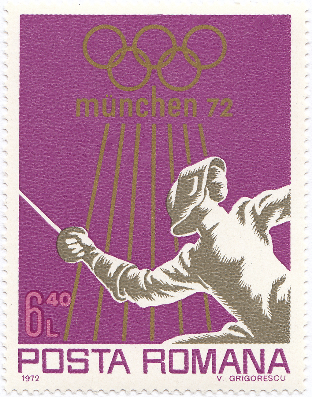 20b stamp issued by Poșta Română for the 1972 Summer Olympics in Munich, representing the fencing event.